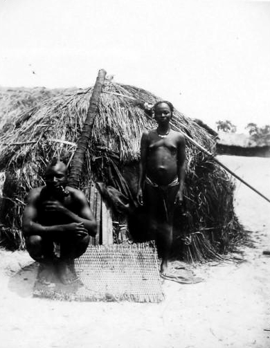 Sara people with thatched dwelling — in the Mayumbe region of the Congo Basin. In circa 1930 French Equatorial Africa.